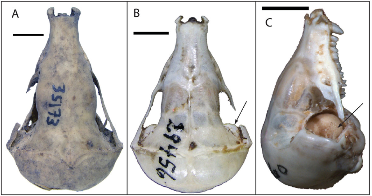 Dorsal (A, B) and lateral (C) views of the skull in Calcochloris obtusirostris (A), Chrysochloris stuhlmanni (B), and Eremitalpa granti (C). Arrow in B points to temporal bulla; arrow in C points to exposed mallear head. Note lack of temporal bulla in A and enlarged epitympanic recess, housing exposed malleus, in C. Scale bars = 5 mm